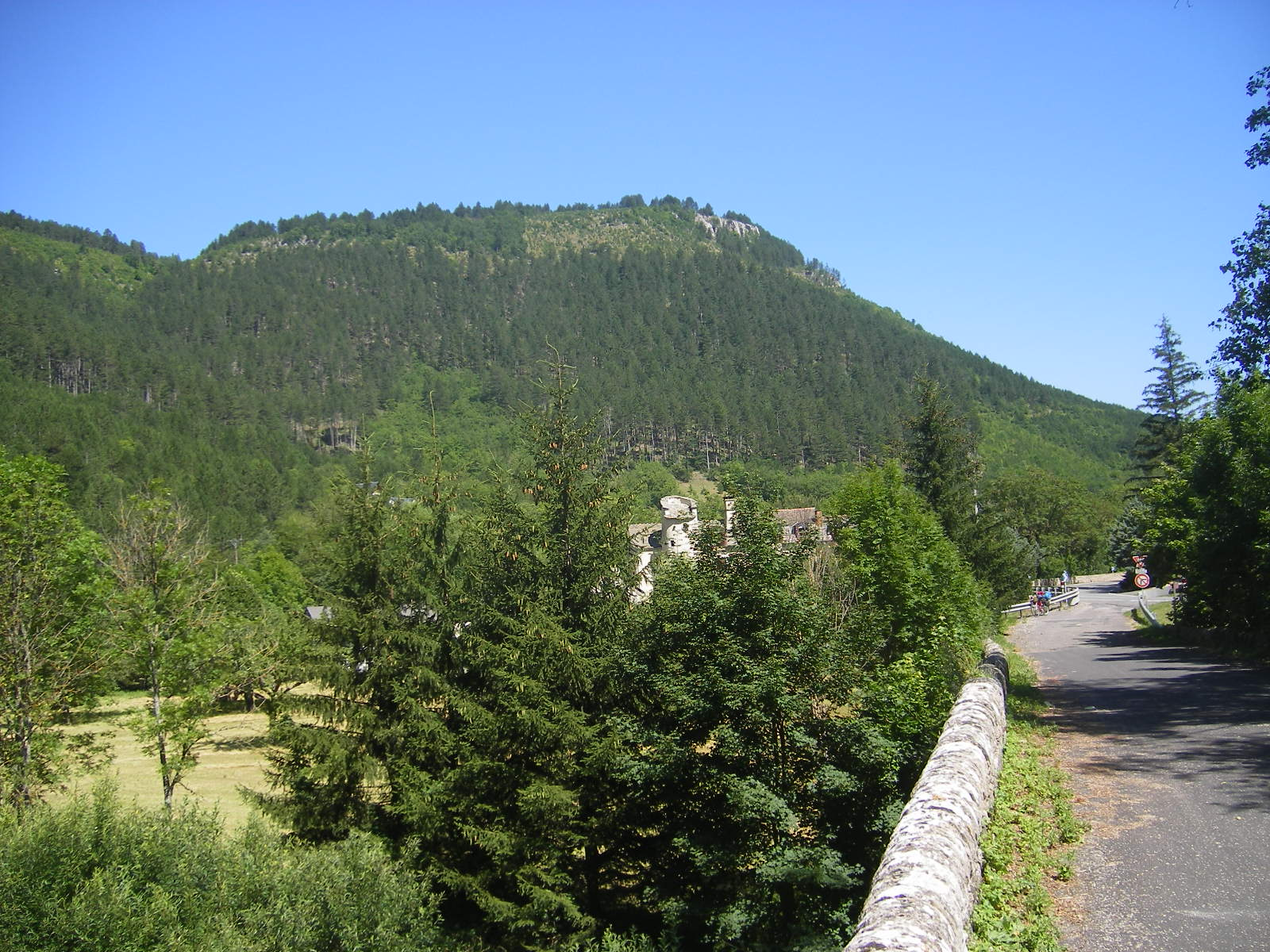 The Valley of the Lot between Balsièges and Mende